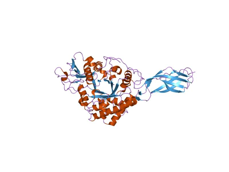 Cartoon representation of the molecular structure of protein registered with 1edq code.